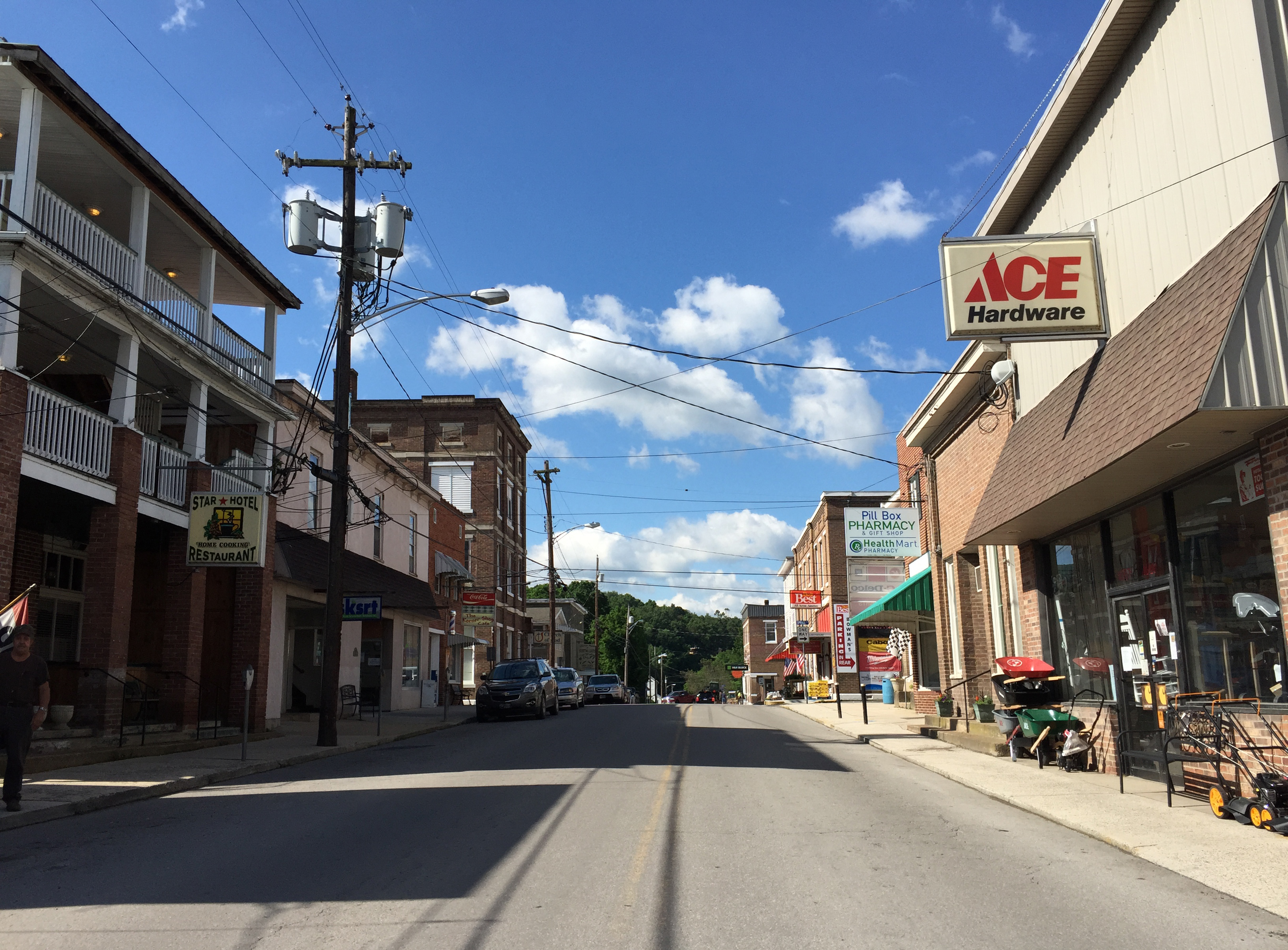 View south along U.S. Route 220 (Main Street) just south of Pine Street in Franklin, Pendleton County, West Virginia